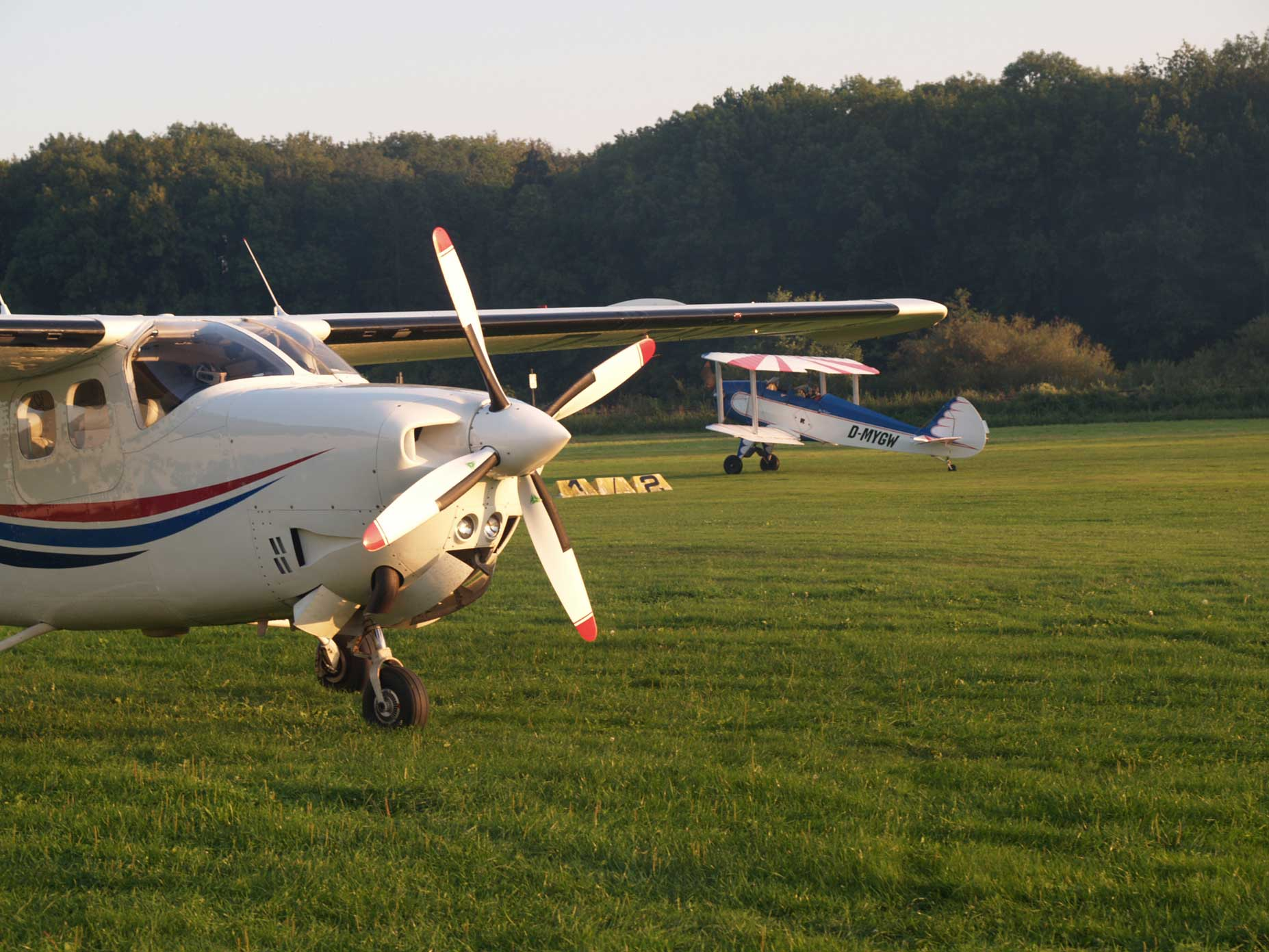 Flugplatz Northeim